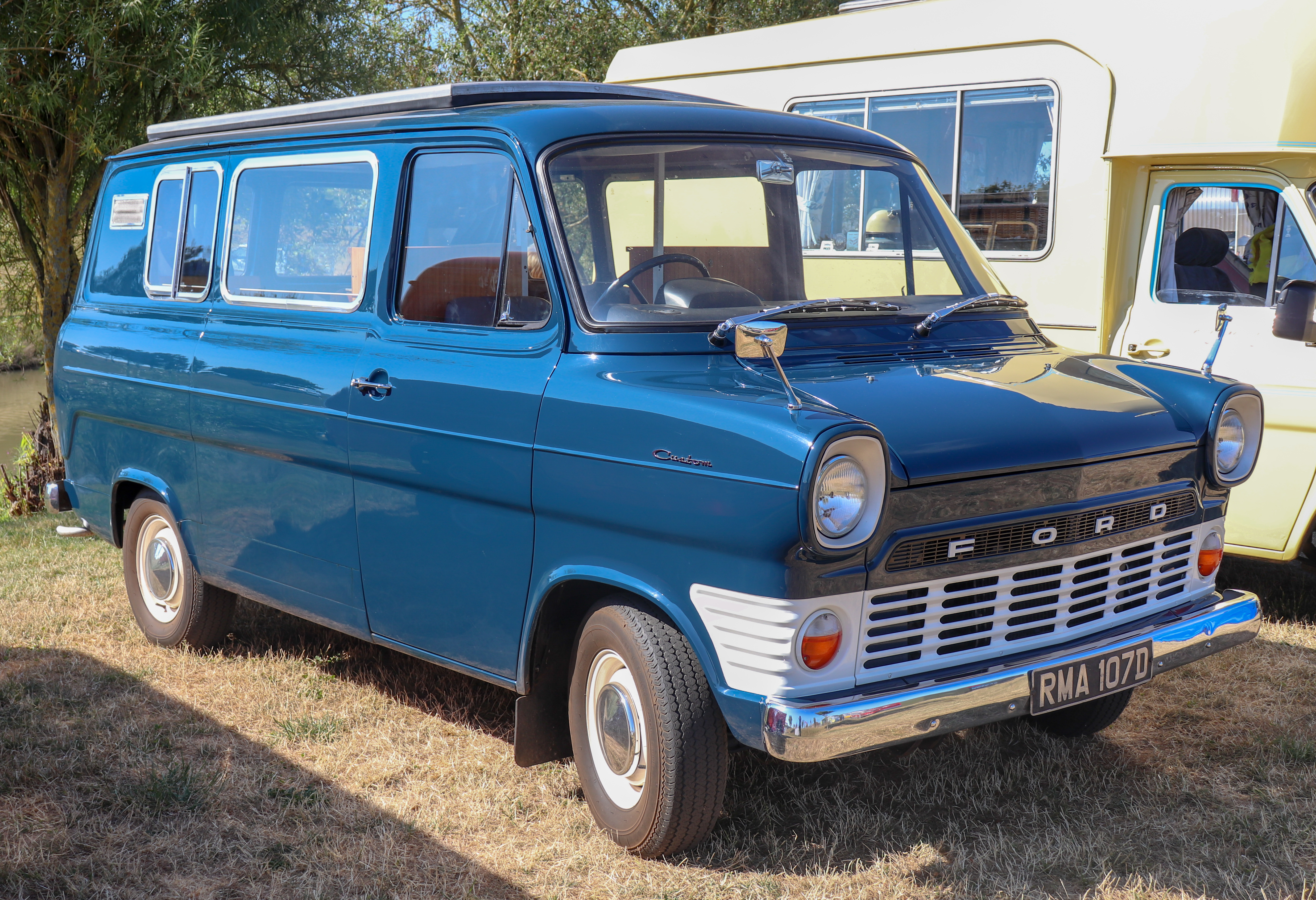 1966 Ford Transit Camper 1.7 Front Taken at the British Motor Museum Old Ford Rally 2018, Gaydon